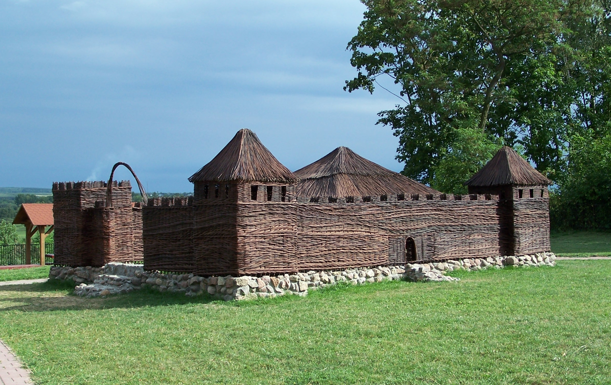 Wicker castle in Solec nad Wisłą (PL)